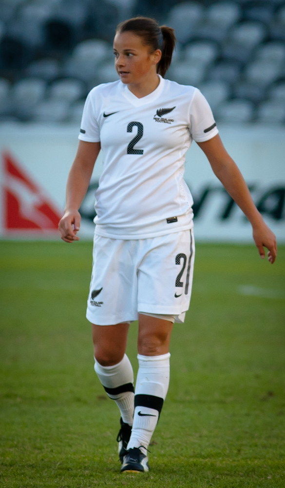 Ria Perciva playing for the New Zealand women's national football team against Australia.